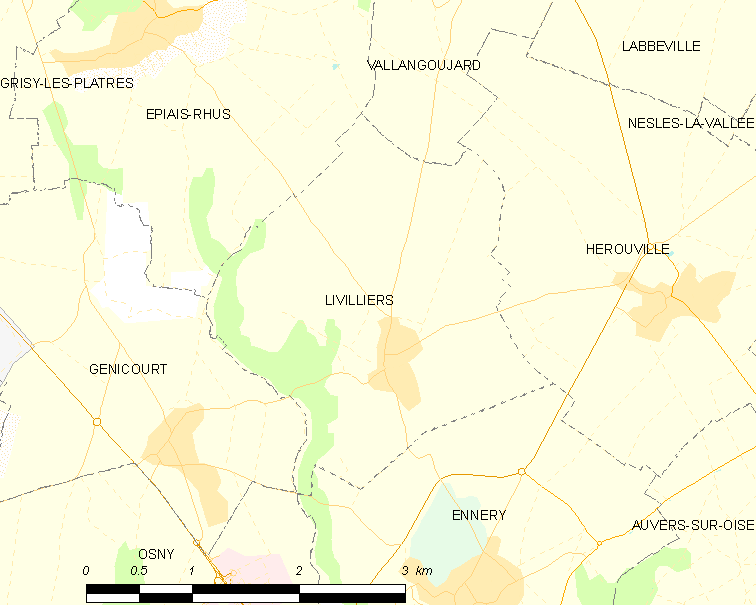 Map of French municipality Livilliers